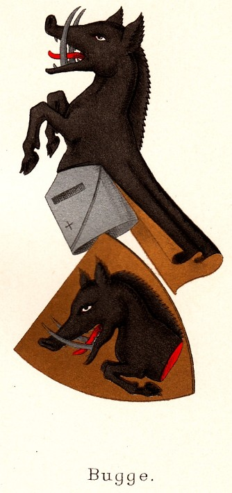 Coat of arms of the Bugge family